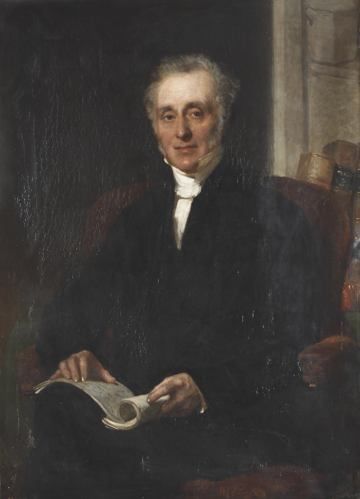 Portrait of John James Tayler (1797–1869), English Unitarian minister.